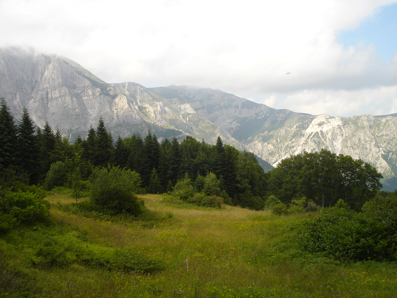 Dolna Babina Dupka on Jakupica mountain, Macedonia